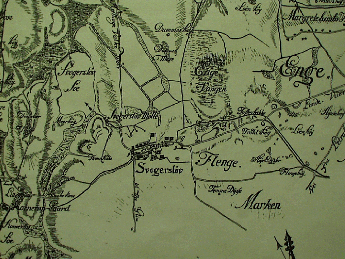 Detail from old map showing the village of Svogerslev outside Roskilde, Denmark